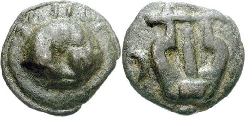 Tuder (nowdays Todi. Circa 235 BC. Æ Aes Grave Semis (34.49 g, 8h). EDETVT (retrograde), sleeping dog Lyre; C (retrograde) in left field. Thurlow & Vecchi 164; Haeberlin pl. 81, 11-12; HN Italy 41 (HN3 Italy 46). VF, green and brown patina, earthen highlights.